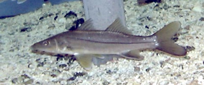 Common snook (Centropomus undecimalis) in an aquarium at Epcot Living Seas exhibit. Photo by Eileen McVey. Centropomus undecimalis.jpg